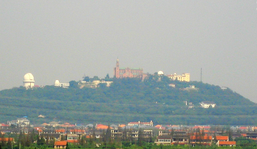 View at the Sheshan hill with the observatory and the Basilica of Our Lady of Sheshan.